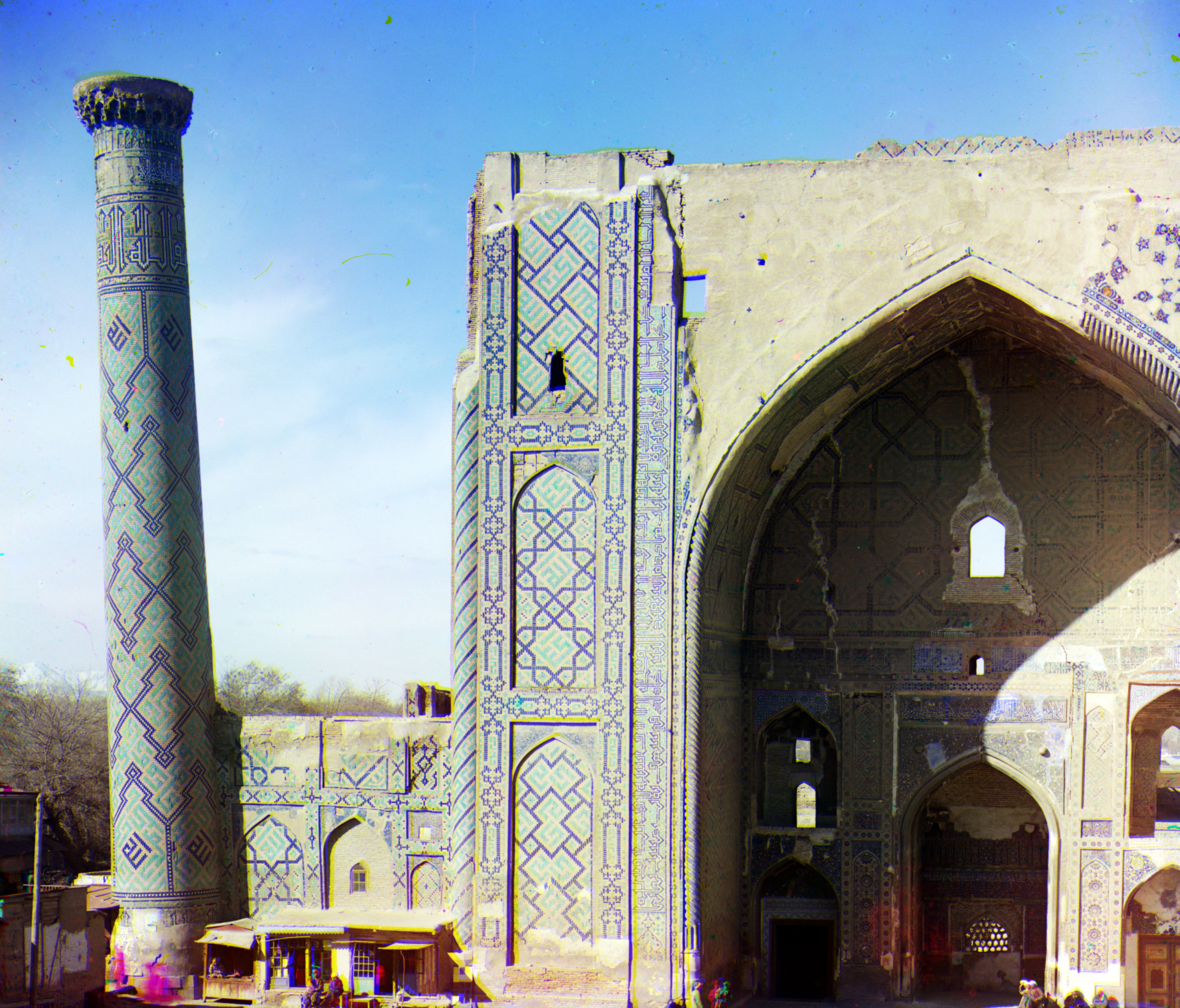 Mirza-Uluk-Bek. Registan. Samarkand